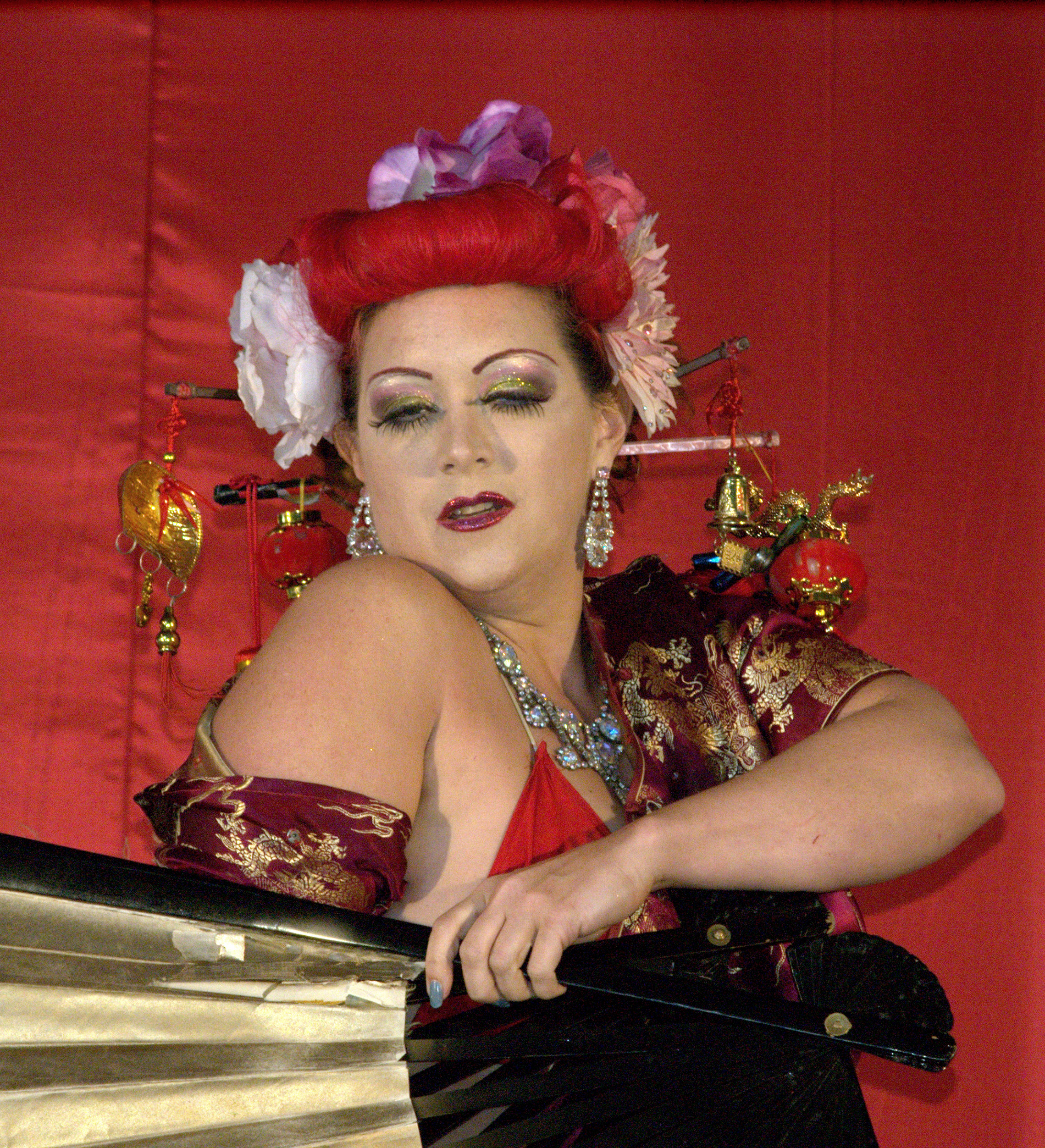 Burlesque star Miss Dirty Martini at the 2009 HOWL! Festival in New York City's East Village. Photographer's blog post about the photo and event.